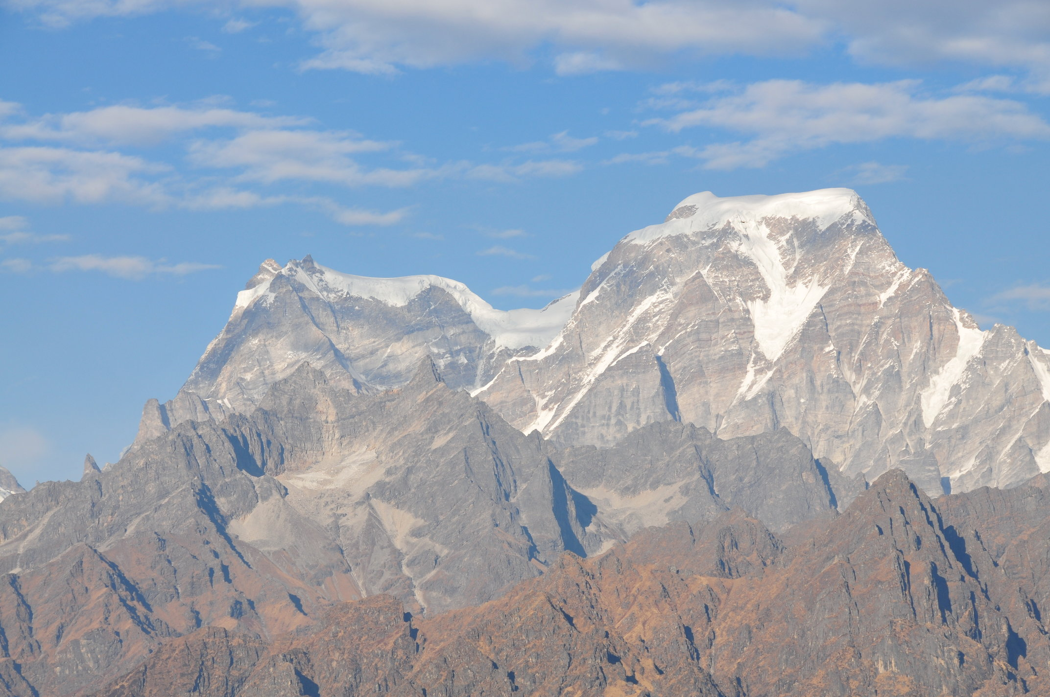 Hathi Parbat (on the right) with Gauri Parbat (on the left) from Gorson Bugyal